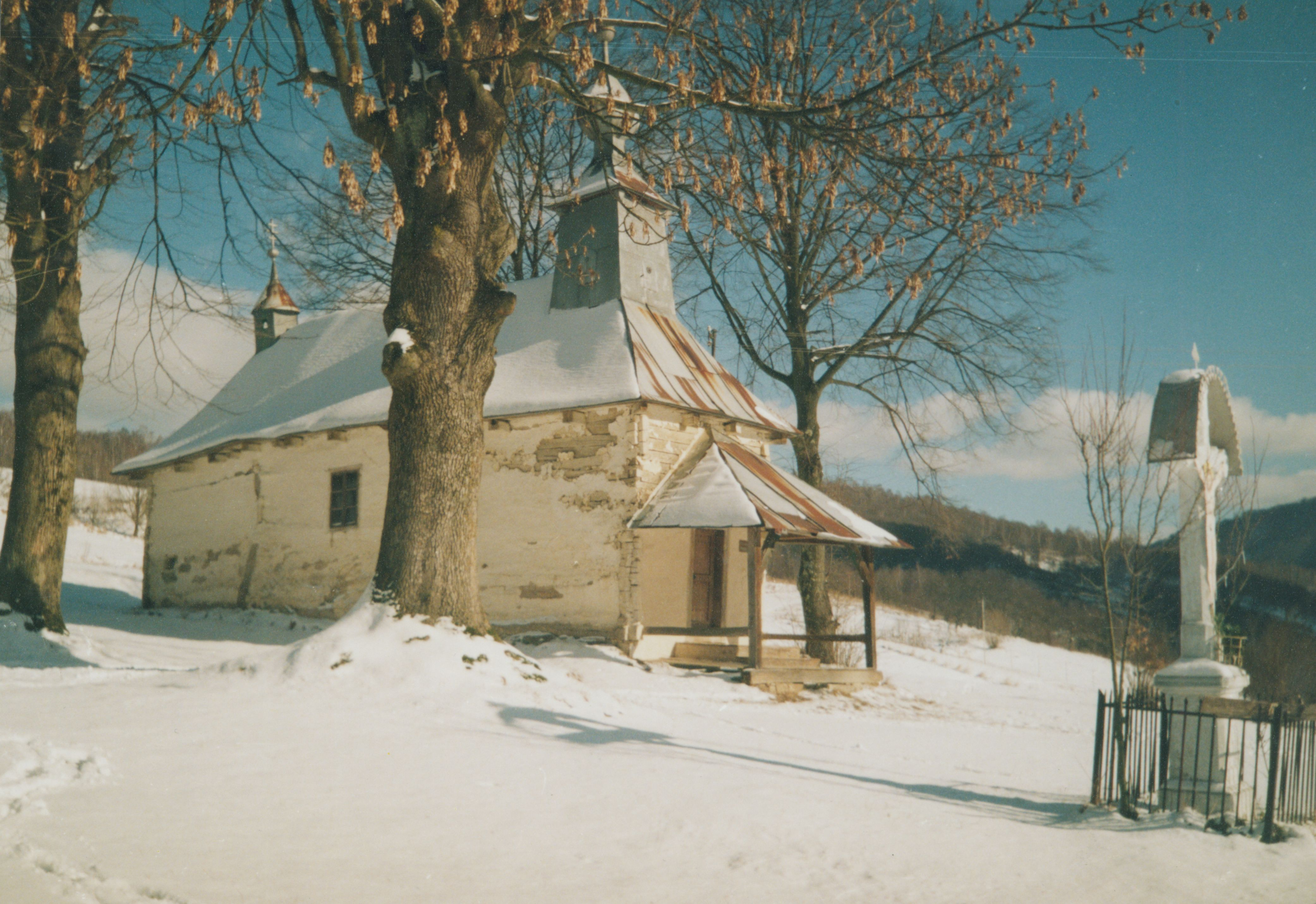 Jalová wooden church